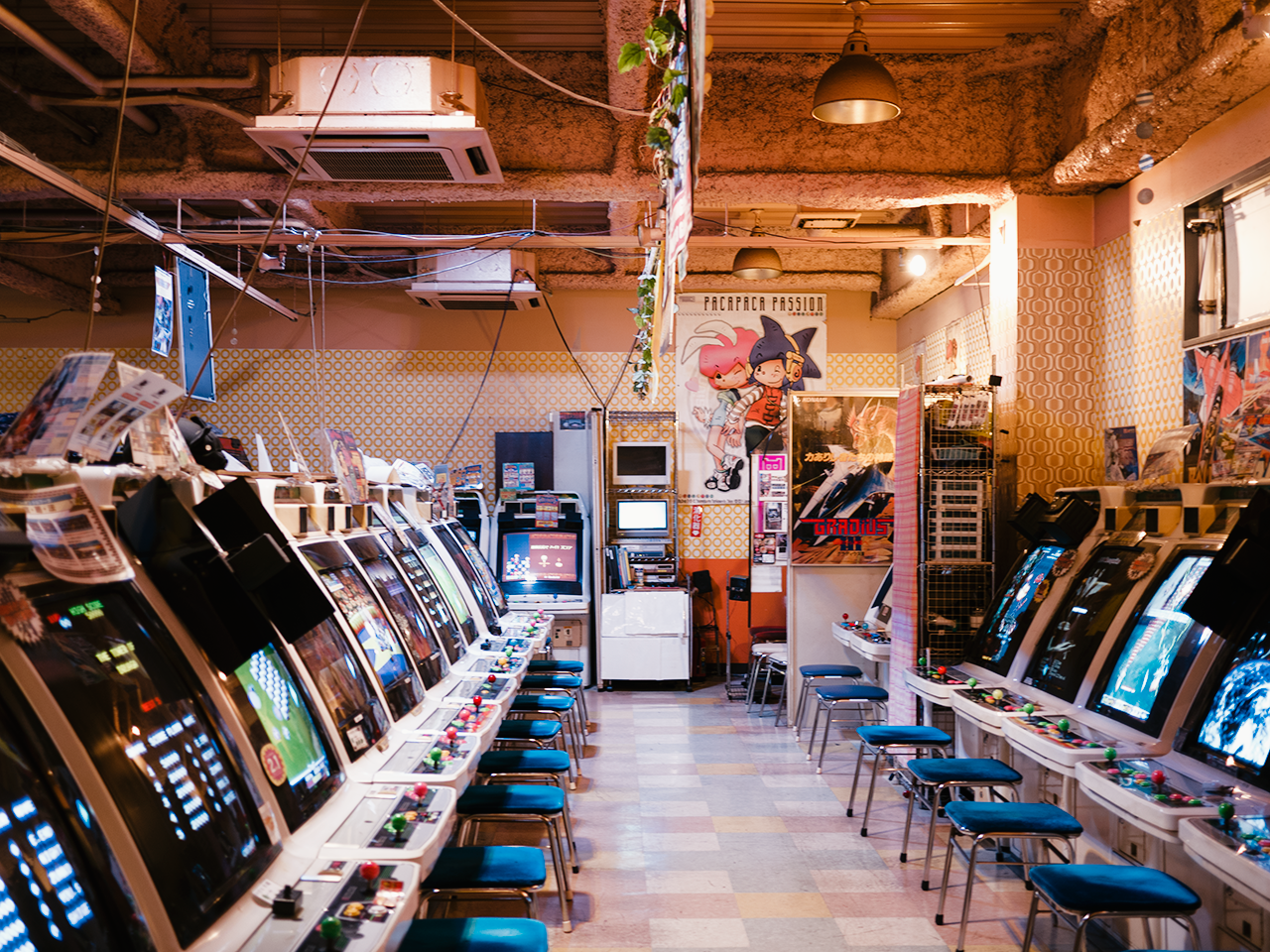 Takadanobaba Game Center Mikado 1F